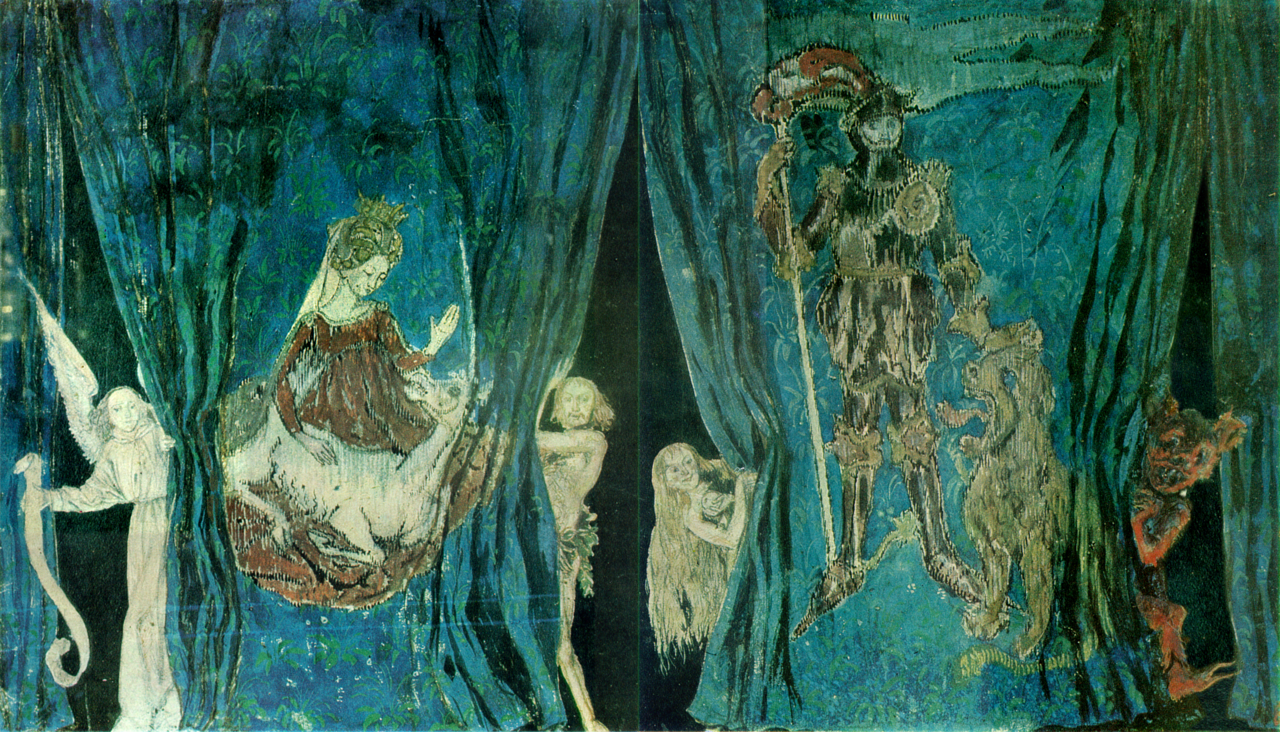 A. N. Benois. Curtain of "Starinniy Teatr". St-Peterburg. 1907